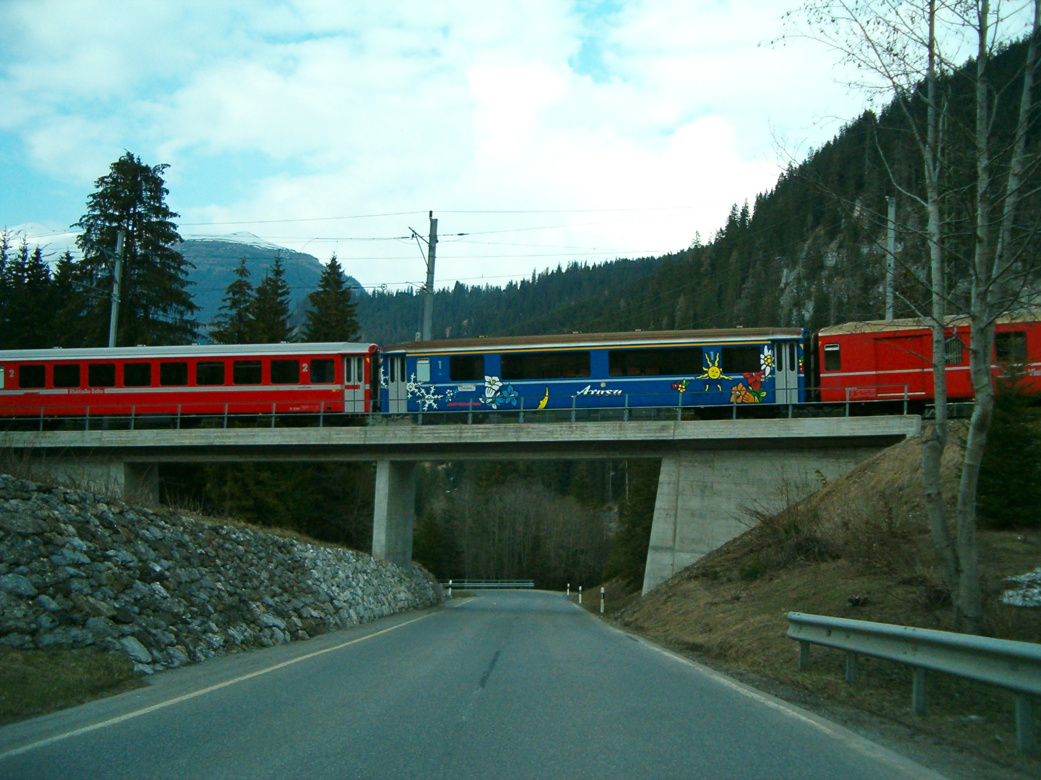 Arosa Express at Litzirueti/Switzerland